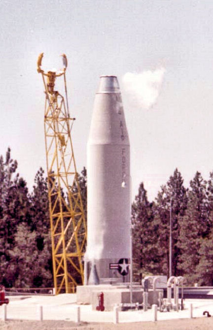 Atlas E site 548-2 Forbes about 1962